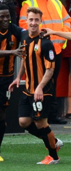 Jake Hyde. Image cropped from original at flickr.